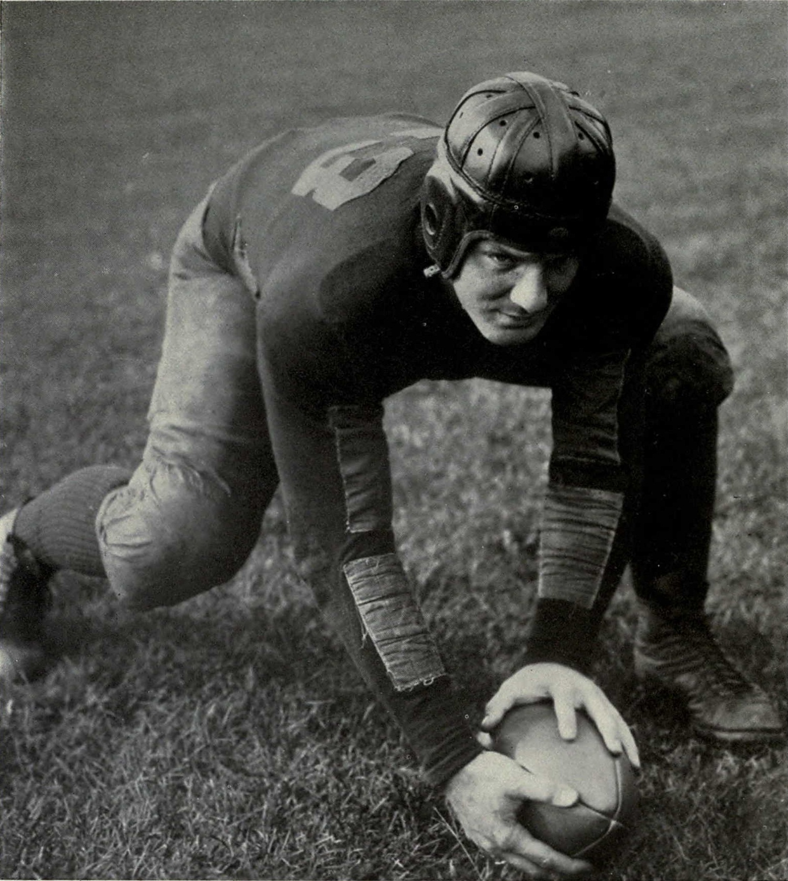 Photograph of Maynard Morrison This work is in the public domain because it was published in the United States between 1923 and 1963 and although there may or may not have been a copyright notice, the copyright was not renewed. Unless its author has been dead for the required period, it is copyrighted in the countries or areas that do not apply the rule of the shorter term for US works, such as Canada (50 pma), Mainland China (50 pma, not Hong Kong or Macao), Germany (70 pma), Mexico (100 pma), Switzerland (70 pma), and other countries with individual treaties. See Commons:Hirtle chart for further explanation. This work is in the public domain because it was published in the United States between 1923 and 1977 and without a copyright notice. Unless its author has been dead for several years, it is copyrighted in jurisdictions that do not apply the rule of the shorter term for US works, such as Canada (50 p.m.a.), Mainland China (50 p.m.a., not Hong Kong or Macao), Germany (70 p.m.a.), Mexico (100 p.m.a.), Switzerland (70 p.m.a.), and other countries with individual treaties. See this page for further explanation.